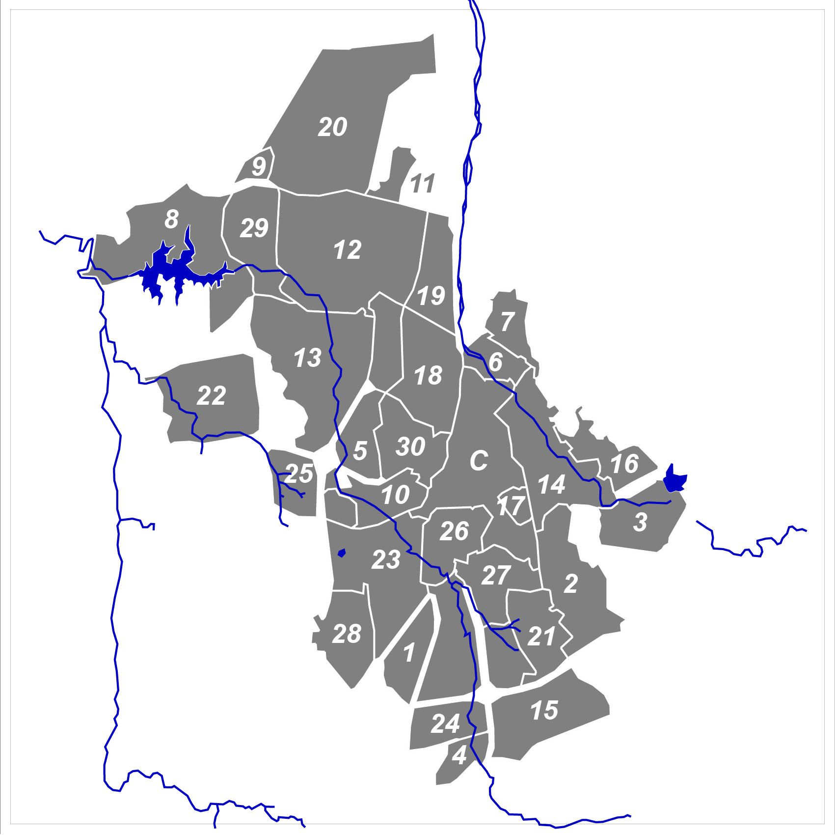 map of the City of Windhoek with numering of suburbs. C - Windhoek Central Vorstadt Windhoek-Academia Vorstadt Windhoek-Auasblick Vorstadt Windhoek-Avis Vorstadt Windhoek-Cimbebasia Vorstadt Windhoek-Doradopark Vorstadt Windhoek-Eros Vorstadt Windhoek-Erospark Vorstadt Windhoek-Goreangab Vorstadt Windhoek-Hakahana Vorstadt Windhoek-Hochlandpark Industriegebiet Lafrenz Vorstadt Windhoek-Katutura Vorstadt Windhoek-Khomasdal Vorstadt Windhoek-Klein Windhoek Vorstadt Windhoek-Kleine Kuppe Vorstadt Windhoek-Ludwigsdorf Vorstadt Windhoek-Luxushügel Vorstadt Windhoek-Nord Nördliches Industriegebiet Vorstadt Windhoek-Okuryangava Vorstadt Windhoek-Olympia Vorstadt Windhoek-Otjomuise Vorstadt Windhoek-Pionierspark Vorstadt Windhoek-Prosperita Vorstadt Windhoek-Rocky Crest Südliches Industriegebiet Vorstadt Windhoek-Suiderhof Vorstadt Windhoek-UNAM Vorstadt Windhoek-Wanaheda Vorstadt Windhoek-West